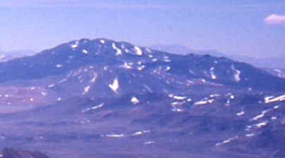 Cerro el Condor